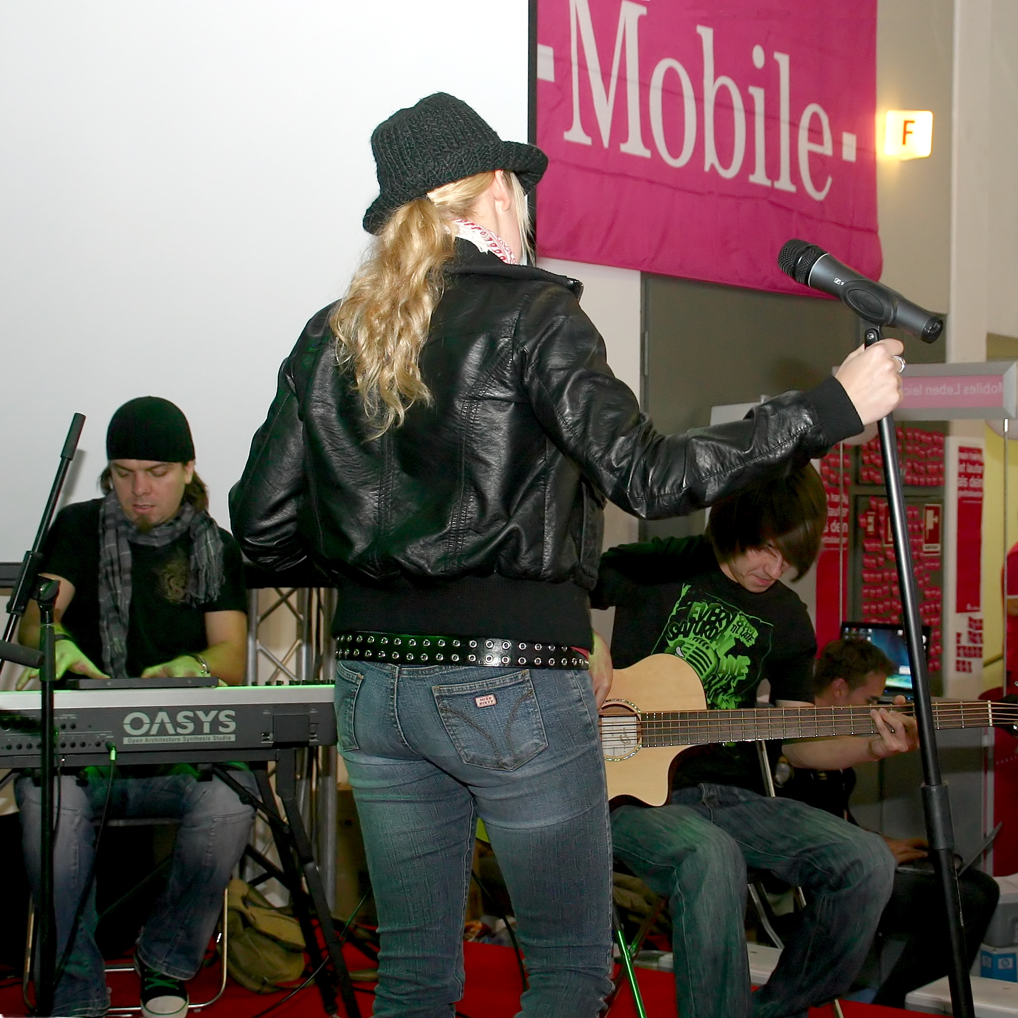 Janine „Jini“ Meyer of the musical group "Luxuslärm" on the booth of STAR FM, youth fair "YOU", Berlin. Wearing a jeans of the brand "Miss Sixty"